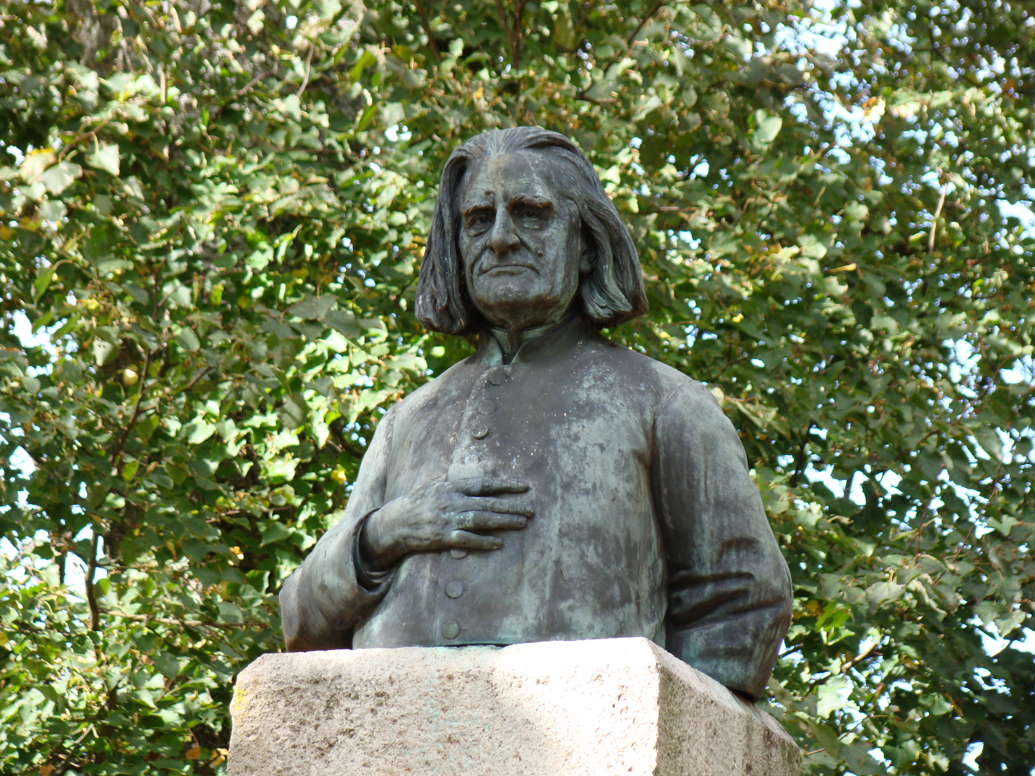 Ferenc Liszt